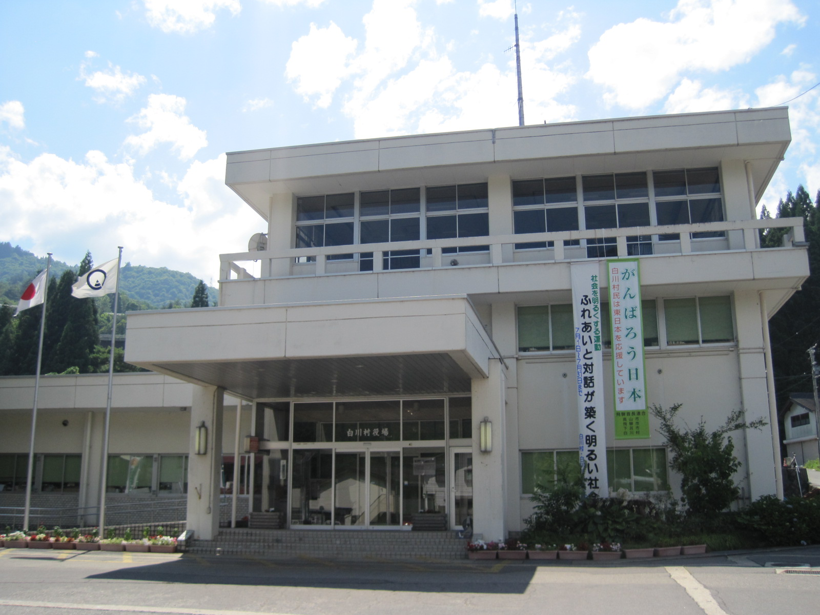 Shirakawa Village Hall (Shirakawa village, Gifu prefecture)